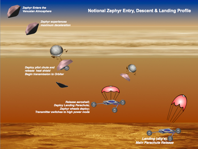 Landing sequence of the Zephyr Venus rover, of the proposed "Venus Landsailing Rover" mission by Geoffrey Landis of NASA's Glenn Research Center in Cleveland, Ohio.